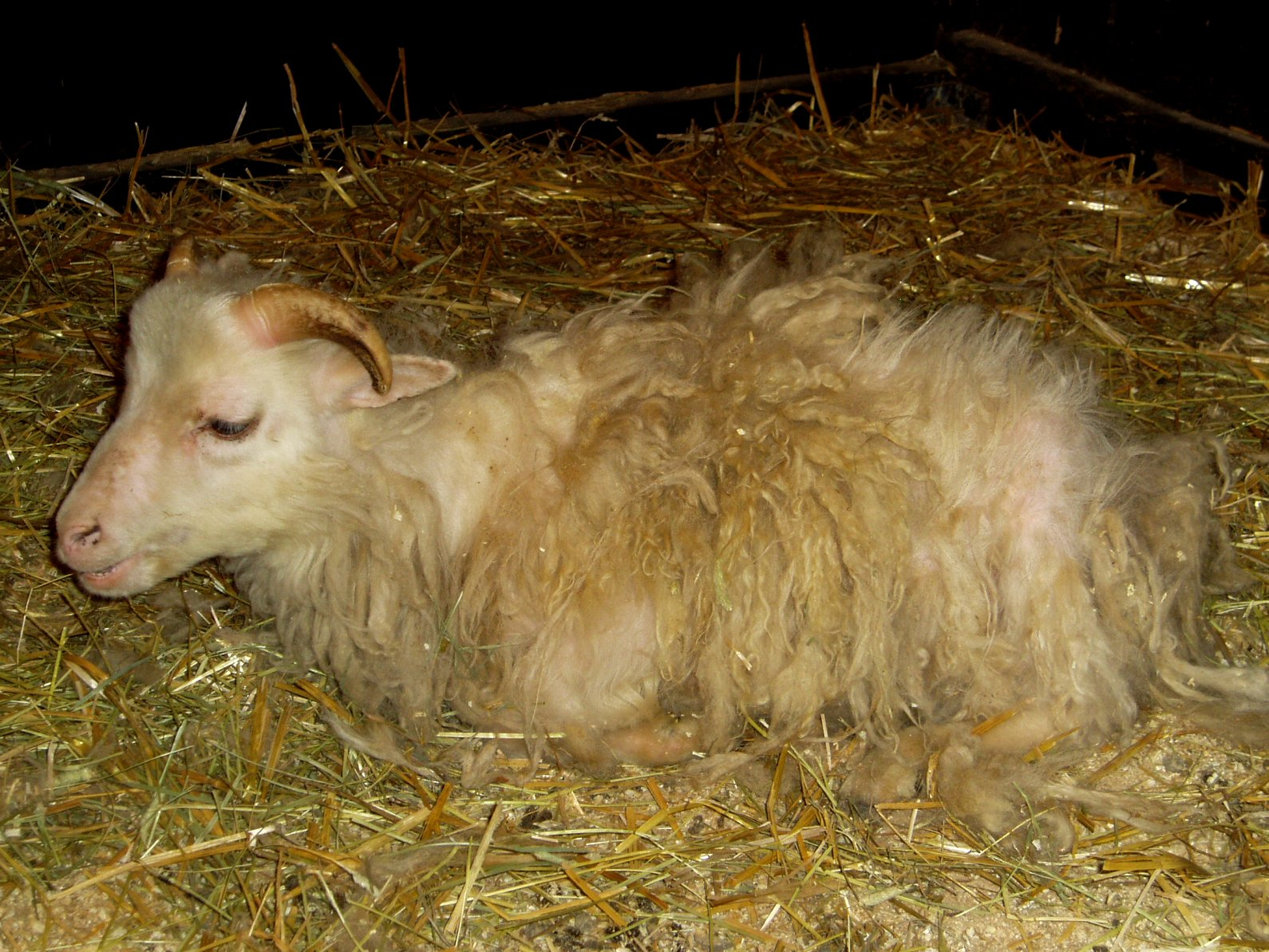 Roslag sheep, swedish breed of sheep, juvenil